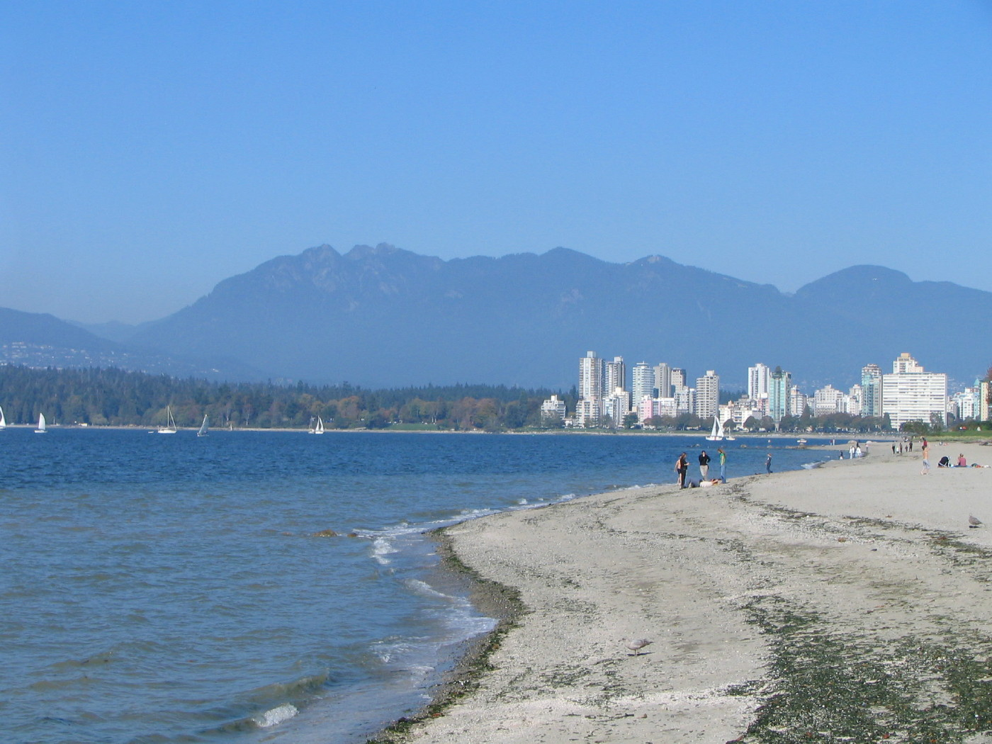 This image was created by me, Flying Penguin of Pacific Spirit Photography of Burnaby, British Columbia, Canada.